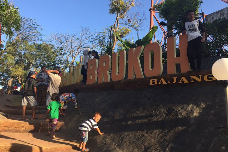 Bukit brukoh bajang pakong pamekasan